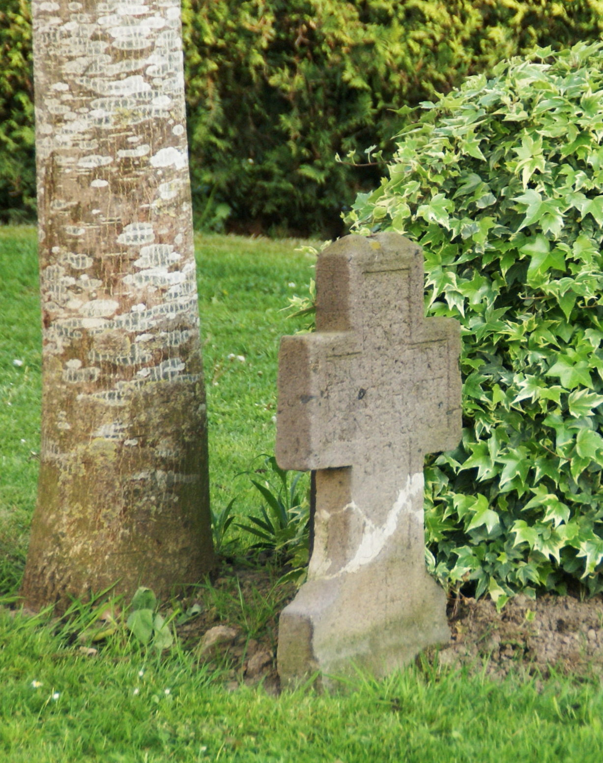 Grave cross in Thelenbitze